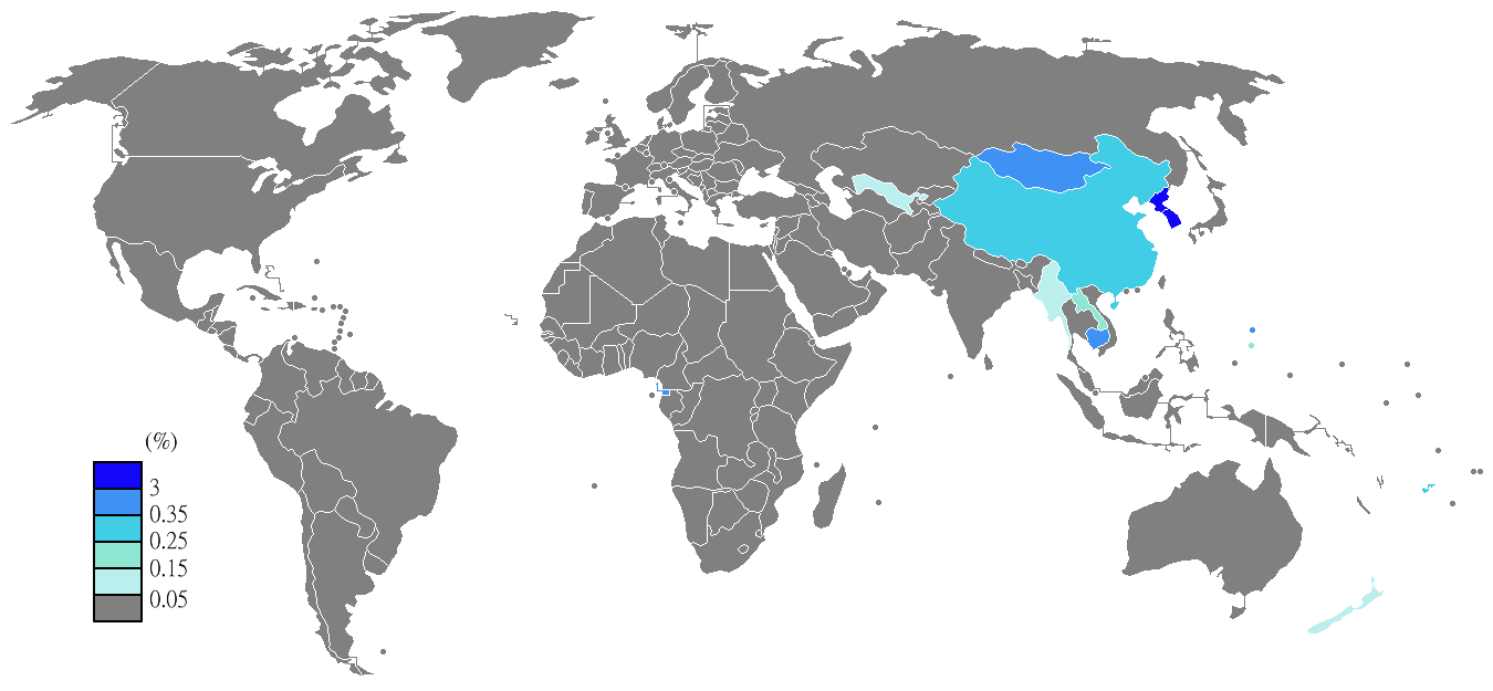 Korean Wikipedia Page views ratio by country 201101-201112.png